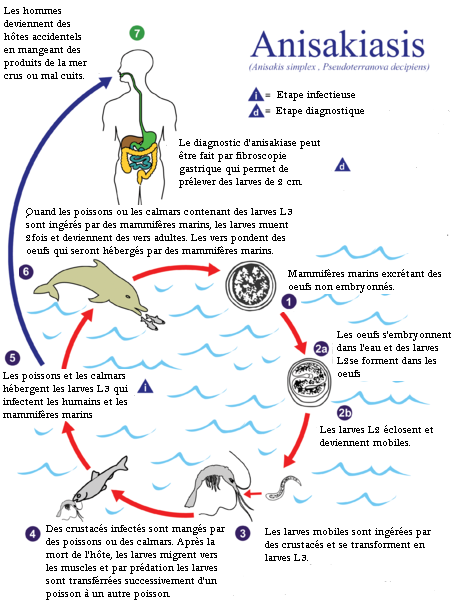 The life cycle of Anisakis simplex and Pseudoterranova decipiens, the causal agents of Anisakiasis. Anisakiasis(French_Version).PNG Traduction en français des légendes de l’image suivante : Anisakiasis.PNG Obtained from the CDC Public Health Image Library. Image credit: CDC/Alexander J. da Silva, PhD/Melanie Moser (PHIL #3378), 2002.